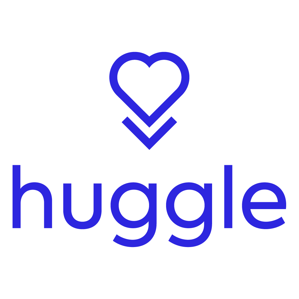 Huggle App Latest logo